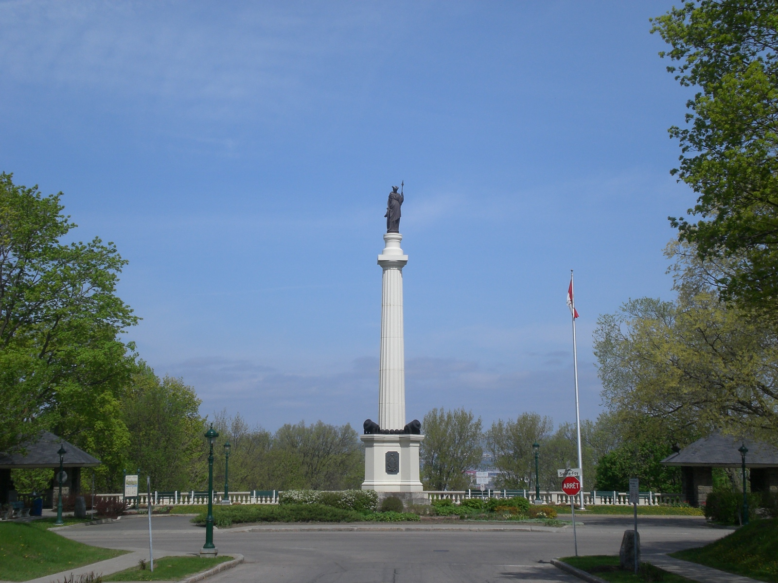 Photo of the monument on the corner of Avenue des Braves and Chemin Sainte-Foy in Quebec City.